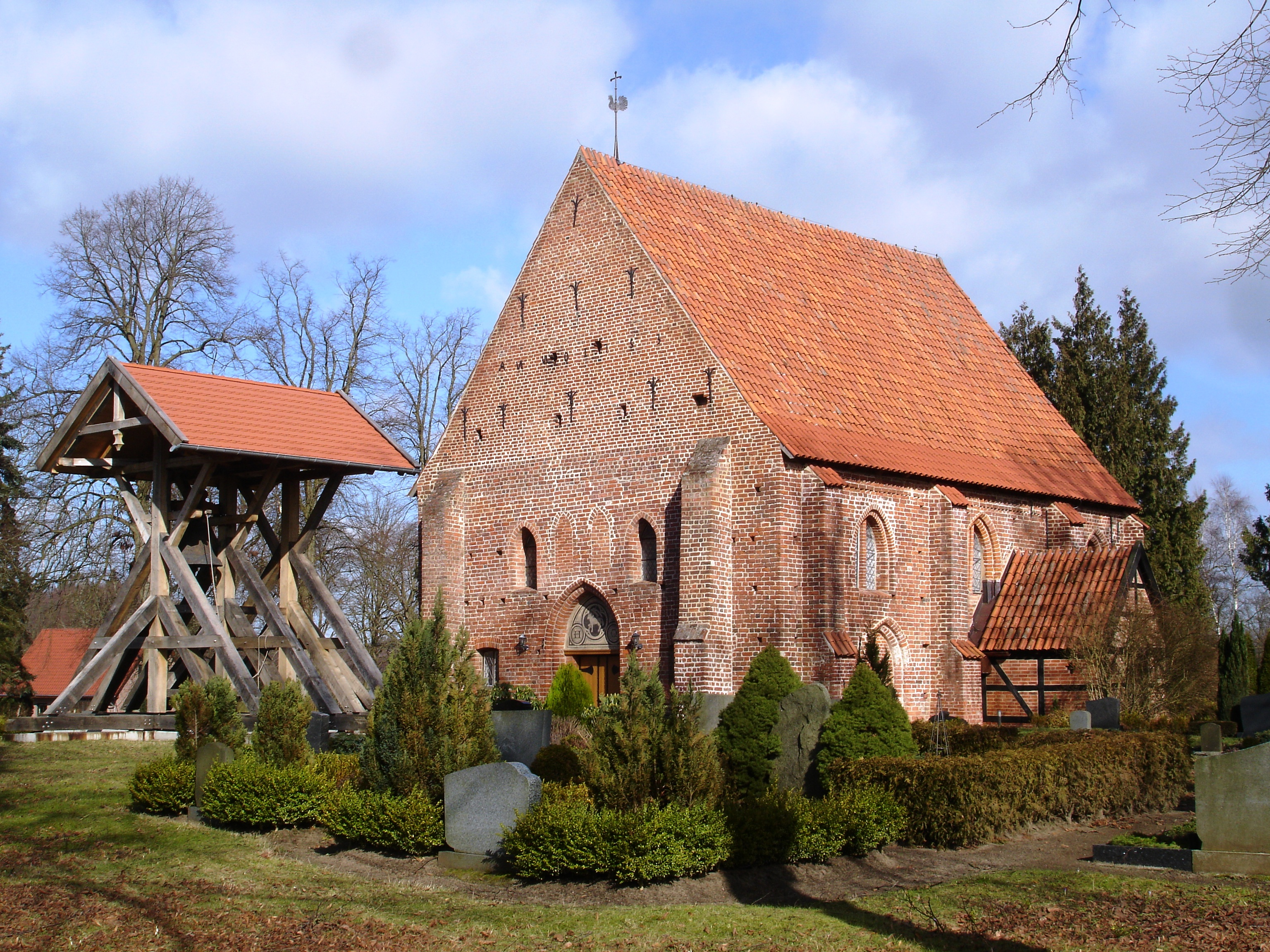 Church in Groß Trebbow, district Nordwestmecklenburg, Mecklenburg-Vorpommern, Germany